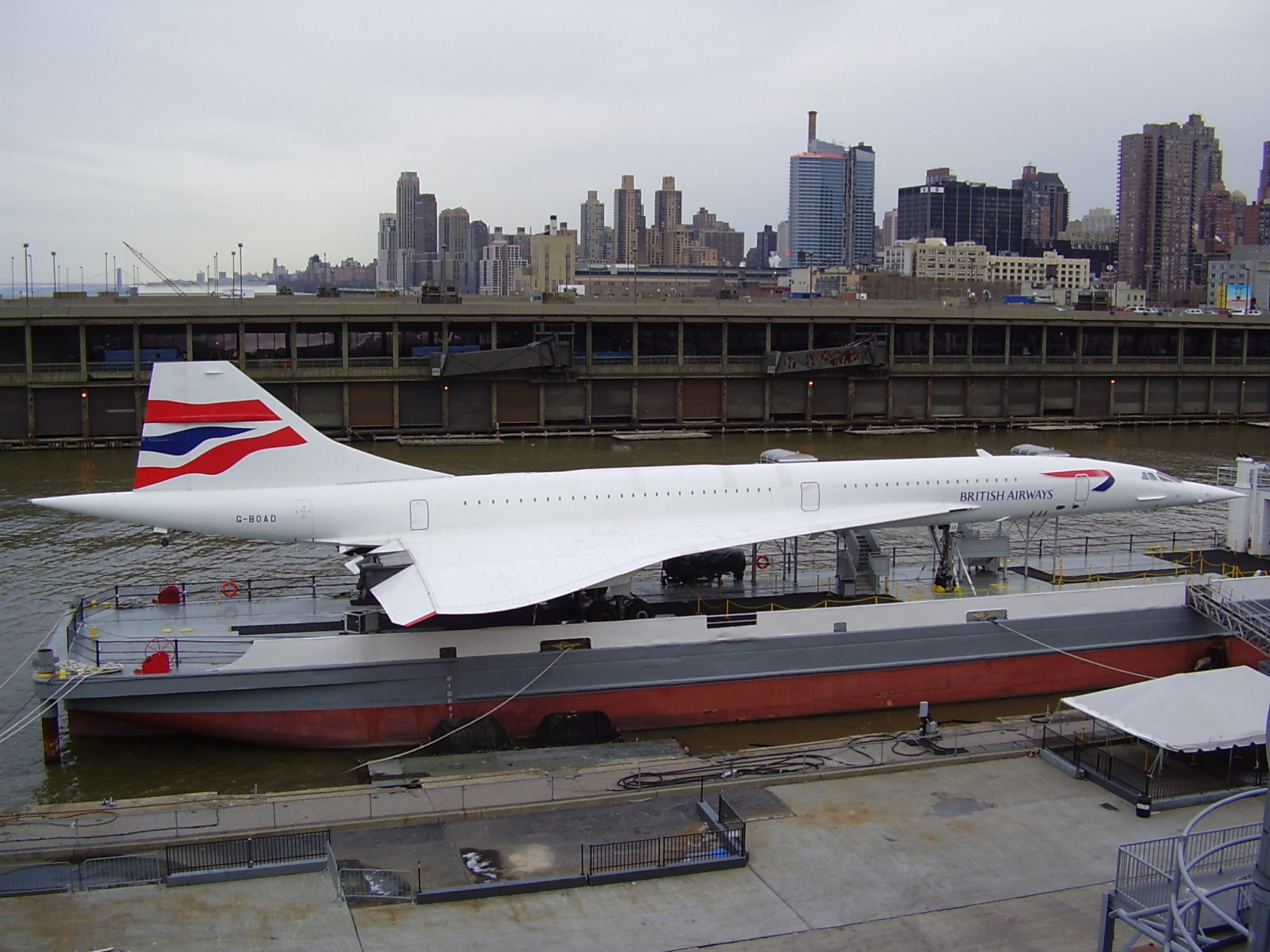 Photograph of British Airways concorde G-BOAD, taken at the Intrepid Sea-Air-Space Museum. Taken with an Olympus 3.2 megapixel D-535 digital camera, image dimensions 2048 x 1536.